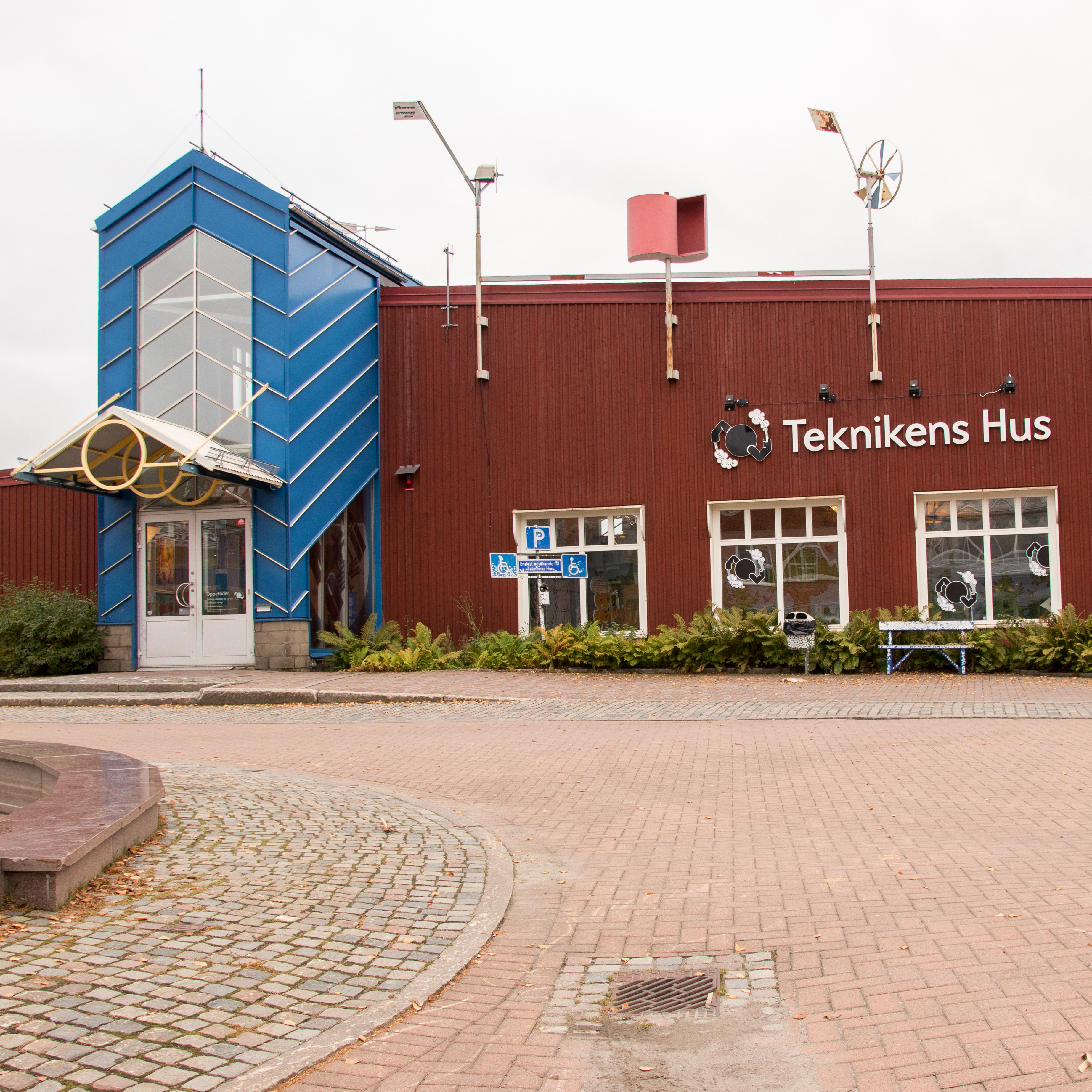 View of the main entrance, Teknikens Hus, a science center in Luleå, Sweden.